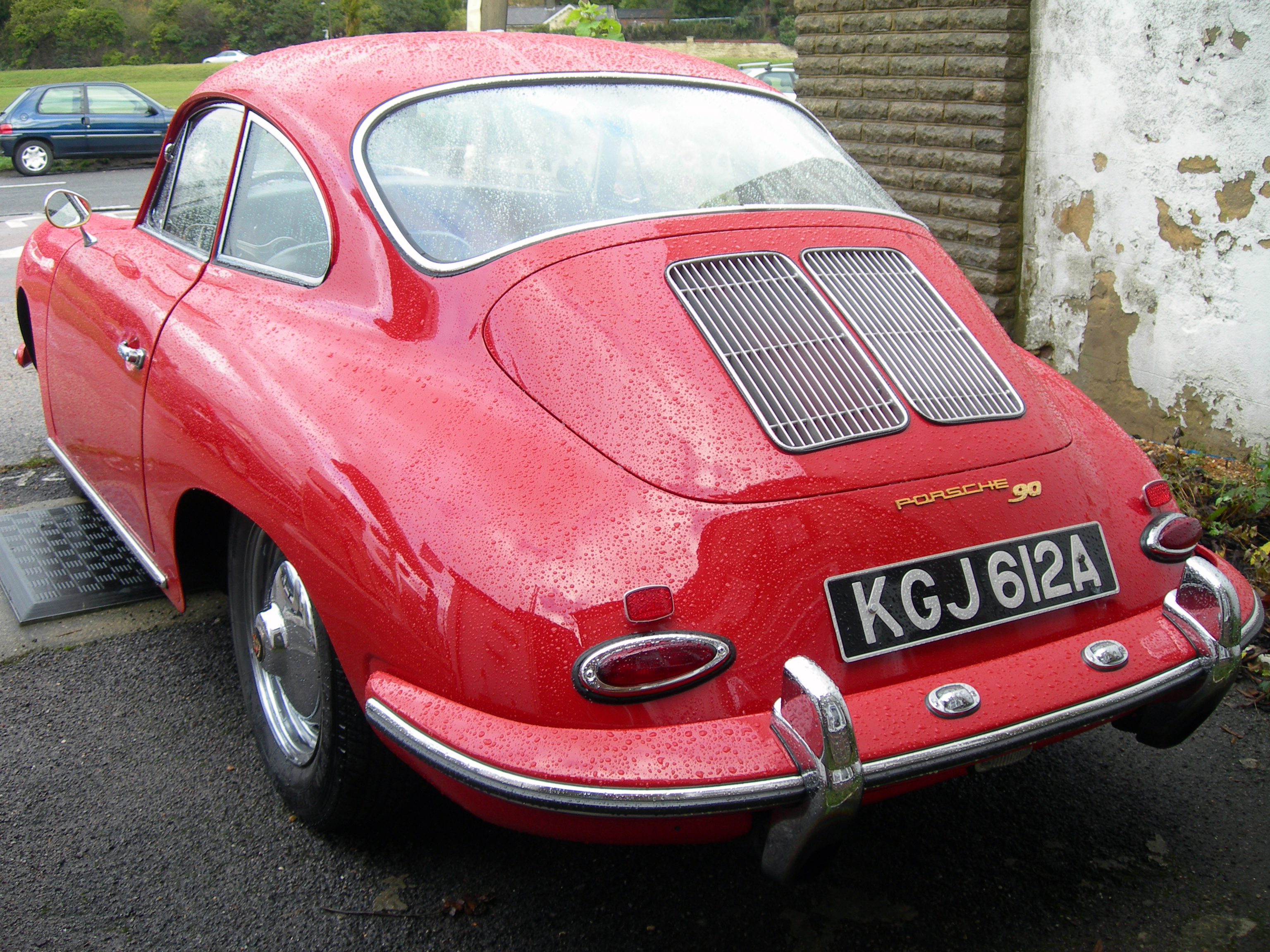 Reigate Heath,Dec 2009